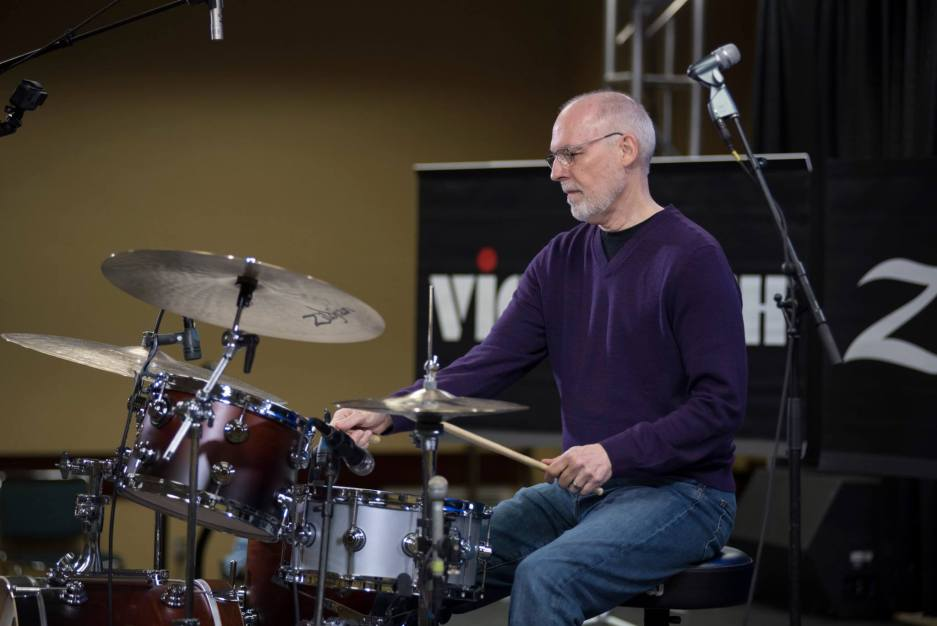 Bruce Becker presenting a Drumset Master Session at the Percussive Art Society International Convention (PASIC) - Indianapolis, IN 2017